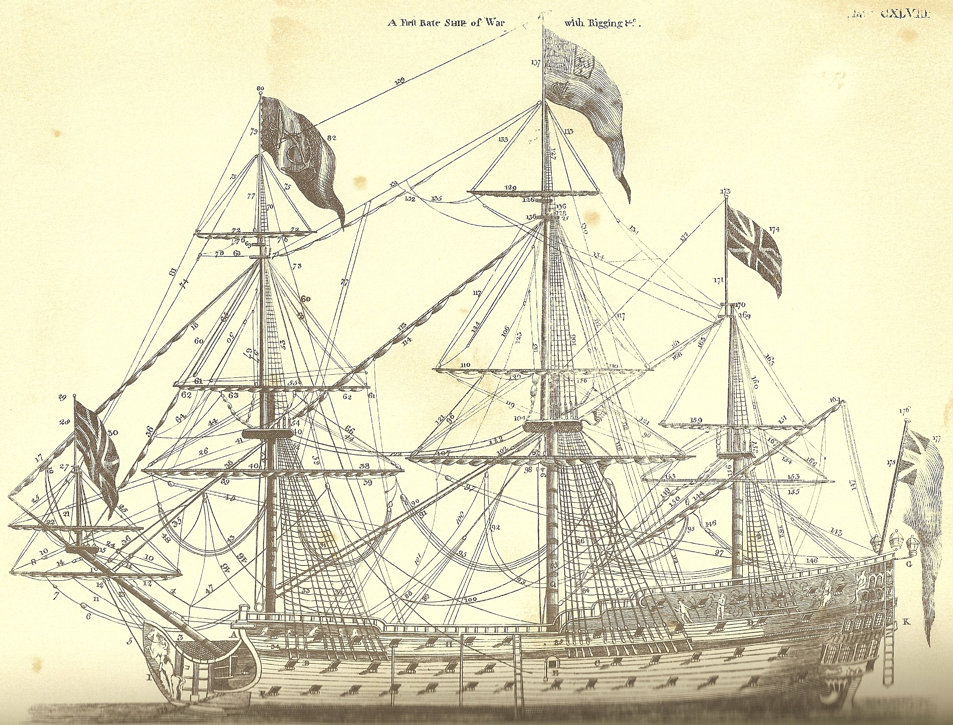 'A First Rate Ship of War with Rigging &c'